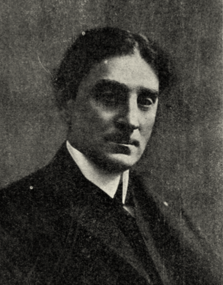 Portrait photograph of the Romanian poet Radu D. Rosetti.